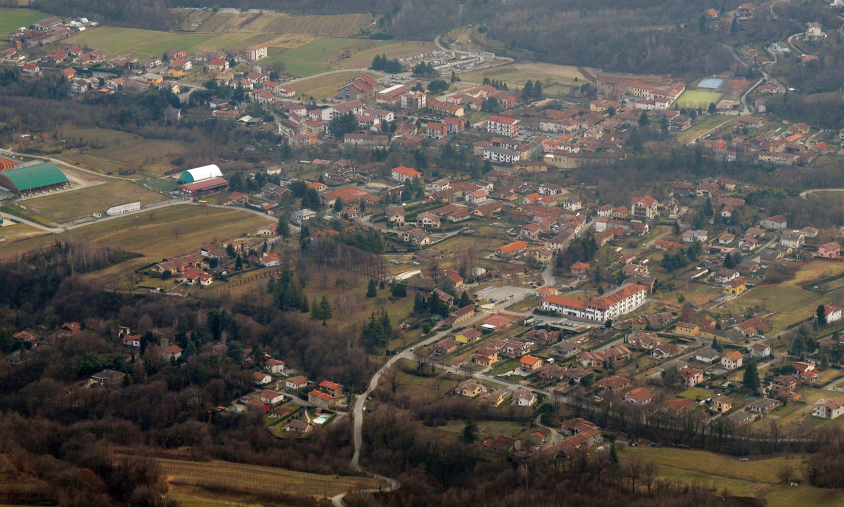 Cantalupa (TO, Italy) from monte Brunello